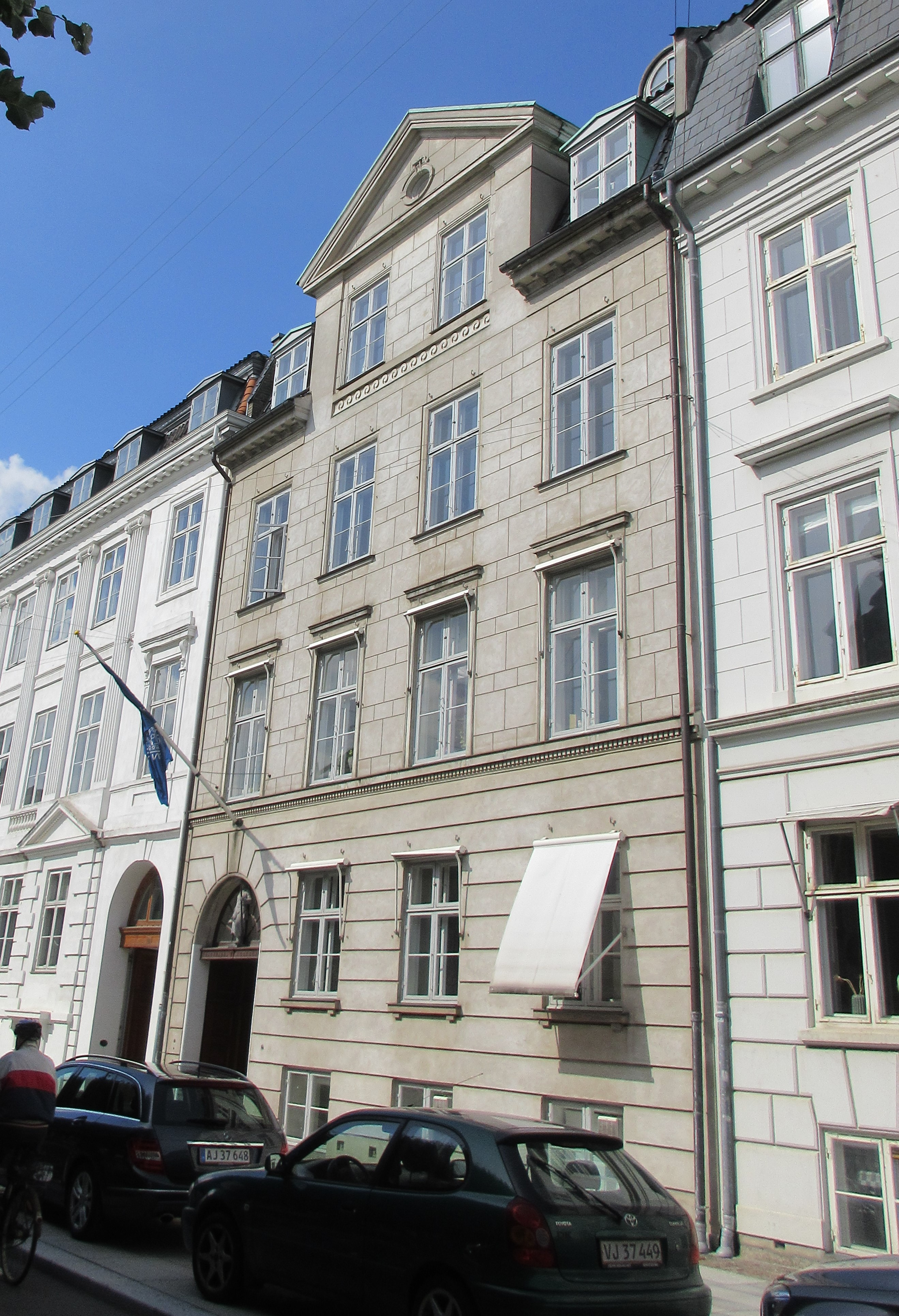 Sankt Annæ Plads 7 in Copenhagen, Denmark